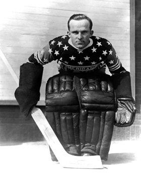 Jake Fores New York American 1925-1930